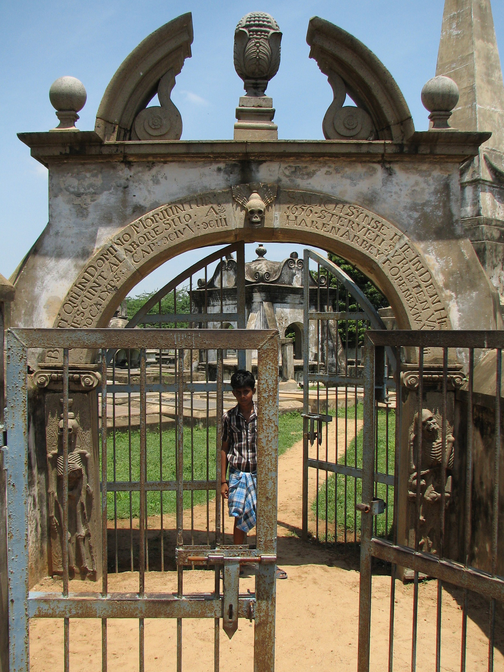 The entrance to the old Dutch Cemetary near Pulicat Lake in northern Tamil Nadu. Note the carved skeletons on the archway. Can anyone say creepy?